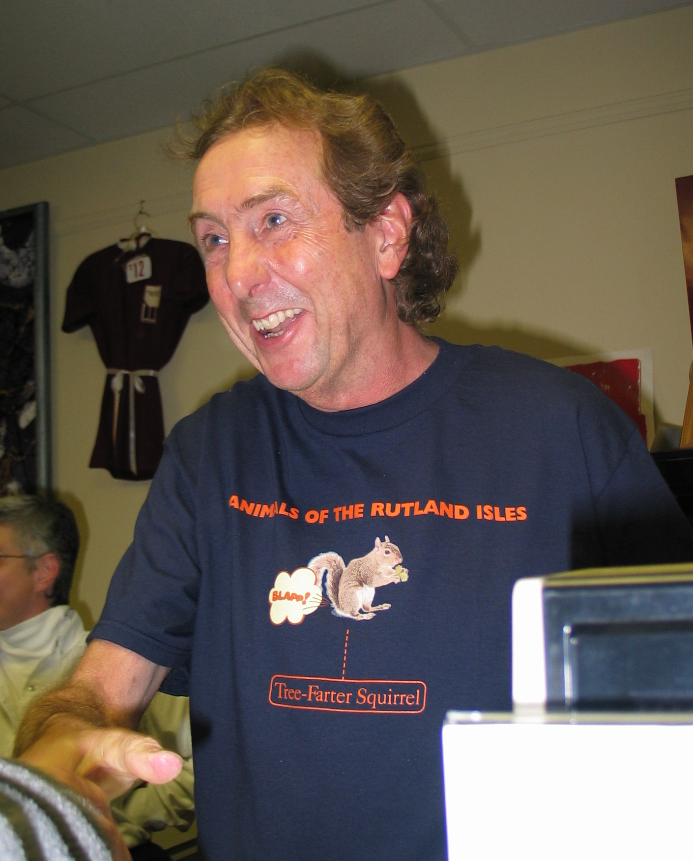 Actor Eric Idle at a meet and greet after his show at the Paramount Theatre in Rutland, Vermont 2003.